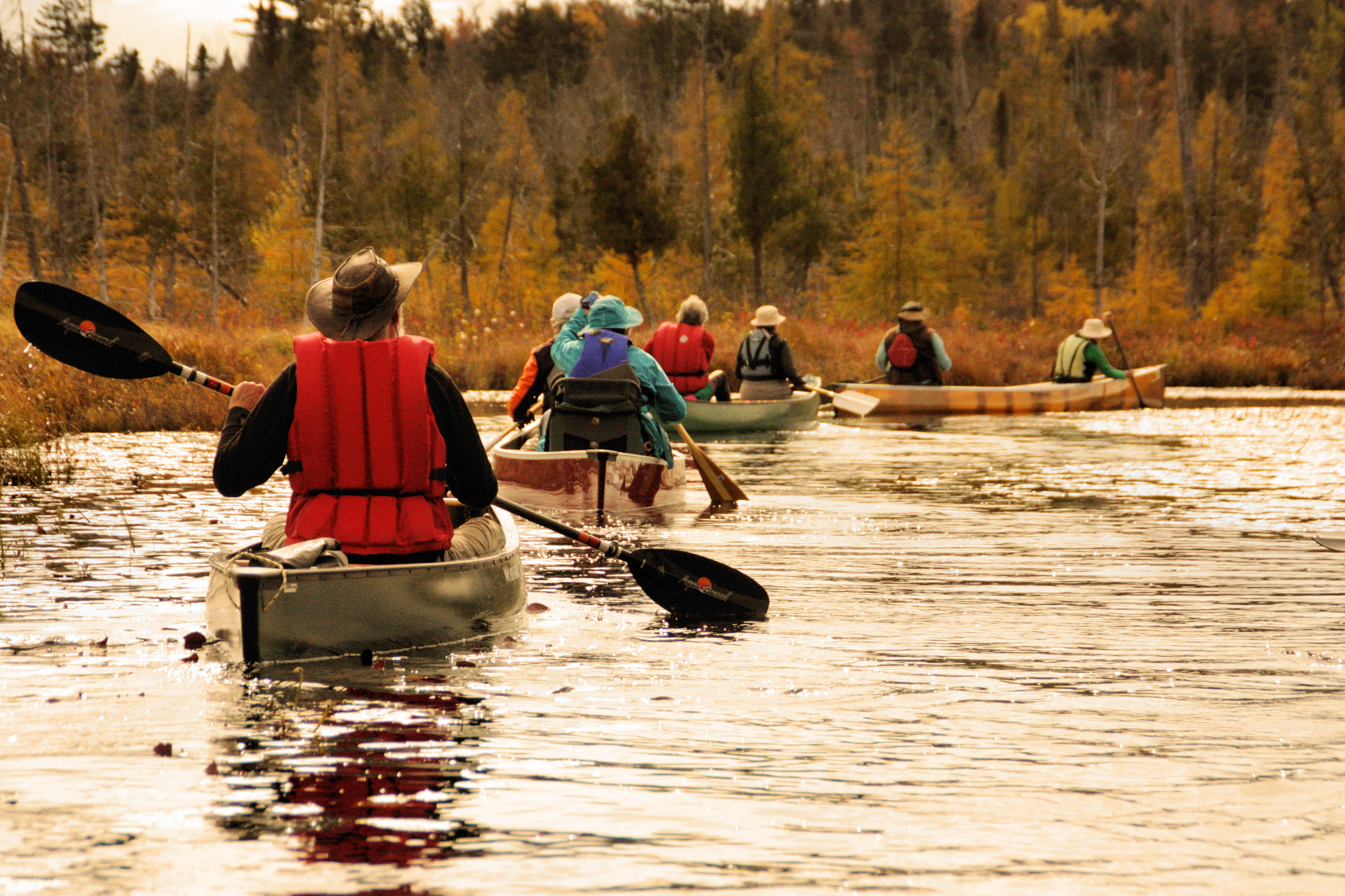 AMC canoe & kayak trip to the Adirondacks in Oct, 2019